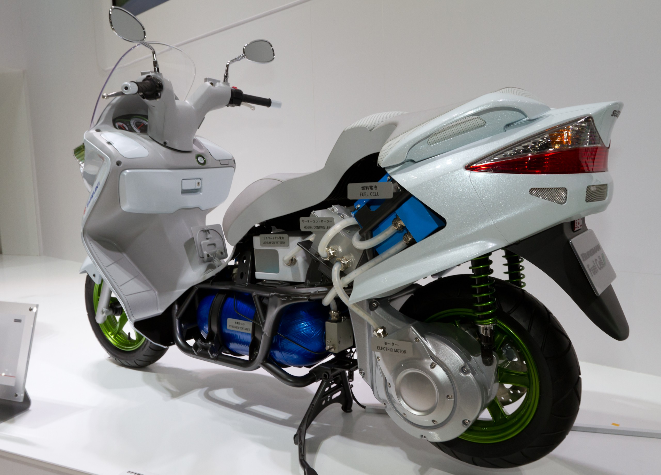 Tokyo Motor Show 2011: Suzuki Burgman Fuel Cell cutaway model